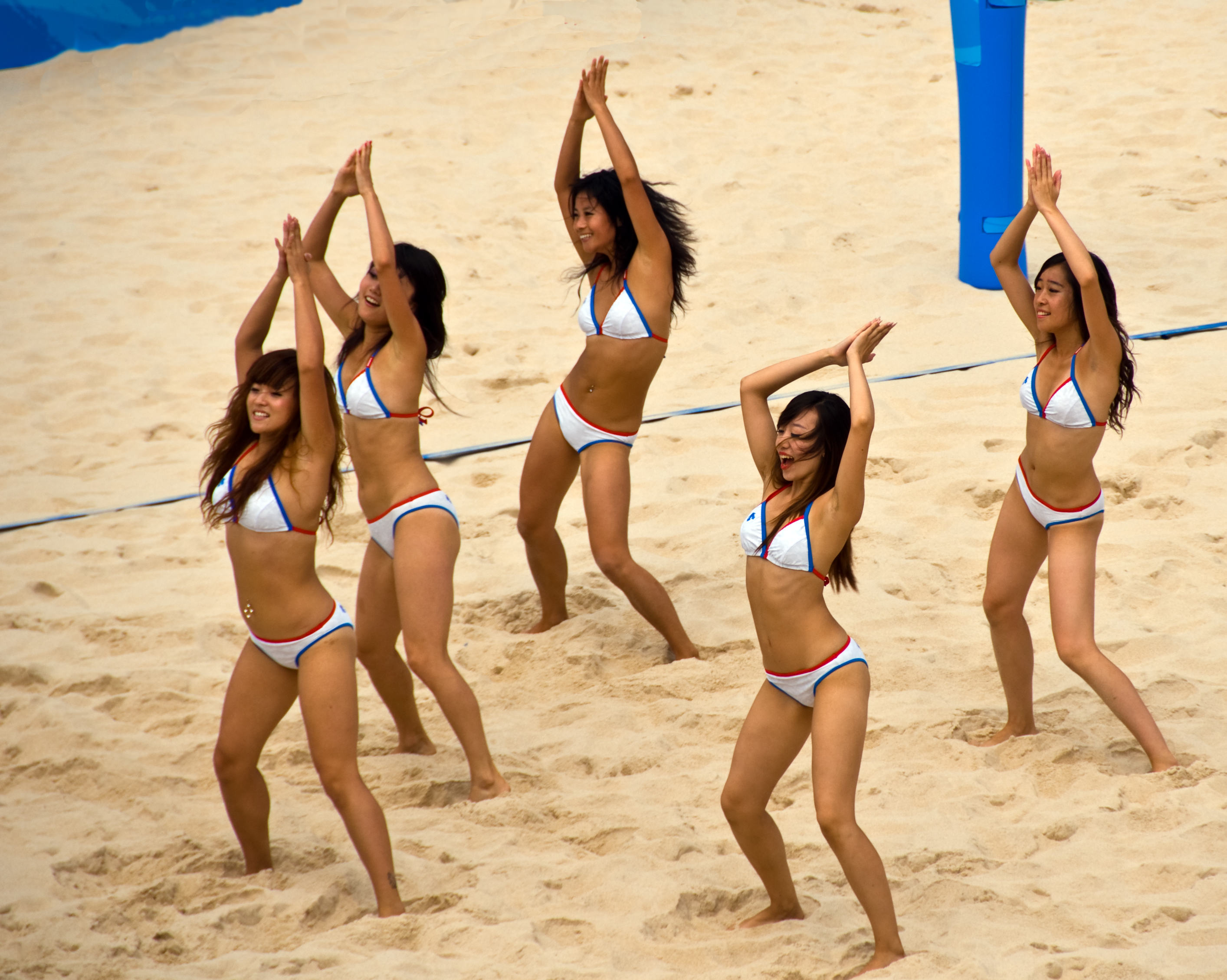 Chinese cheerleaders during the Olympic Beach Volleyball games at Beijing's Chaoyang Park.